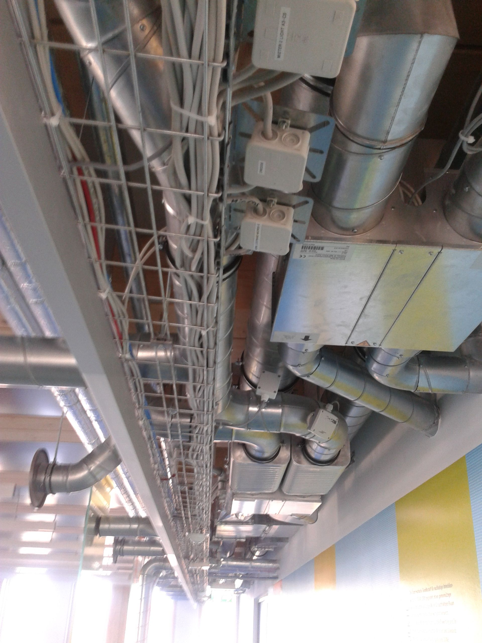 LCT ONE LCT ONE - Ventilation outlets in the 2nd - open installation for demonstration Deitsch: LCT ONE - Lüftungsauslässe im 2. Stock. Offene Demonstartionsinstallation